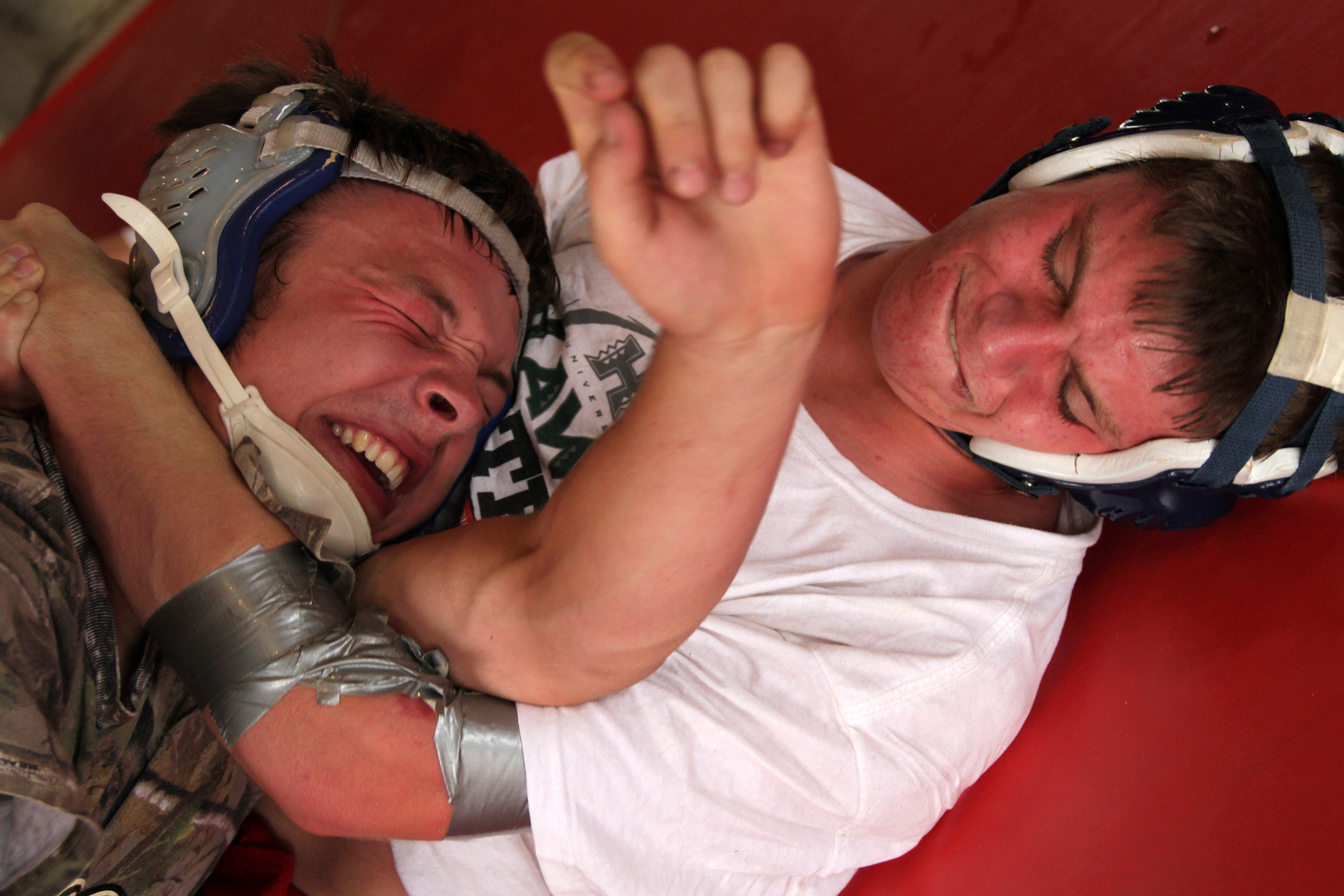 Tucker Breitung, 17, from Prior Lake, Minn., tries to wiggle out of a submission hold from his wrestling partner Matt Kahnke, 17, from Prior Lake Minn., during a free-style training session at the All-Marine Wrestling Camp July 26. Breitung and Kahnke will both be seniors at Prior Lake High School. For additional imagery from the event, visit